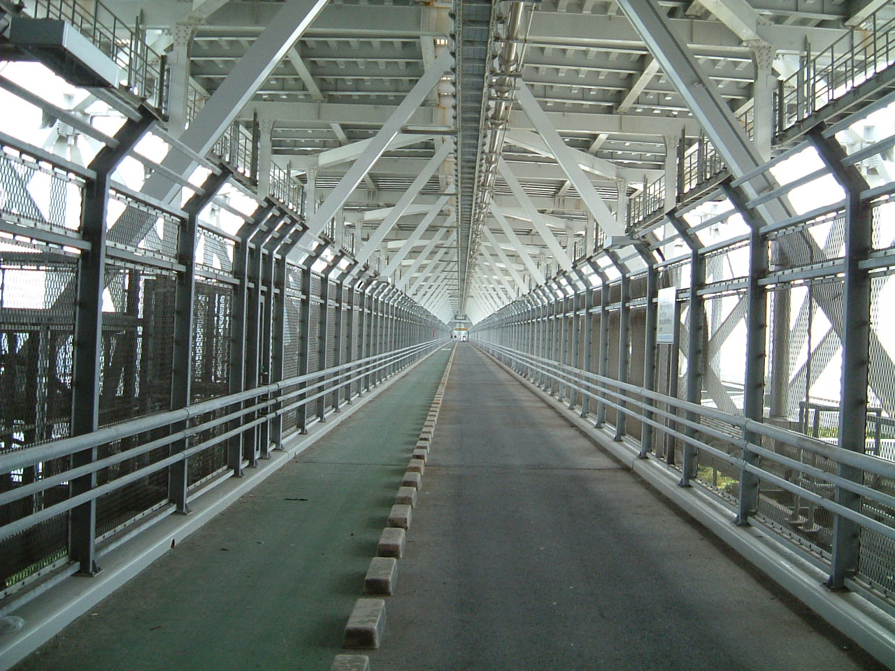 In'noshima bridge's road for two-wheeled vehicle of bicycle and pedestrian and 125 cc or less